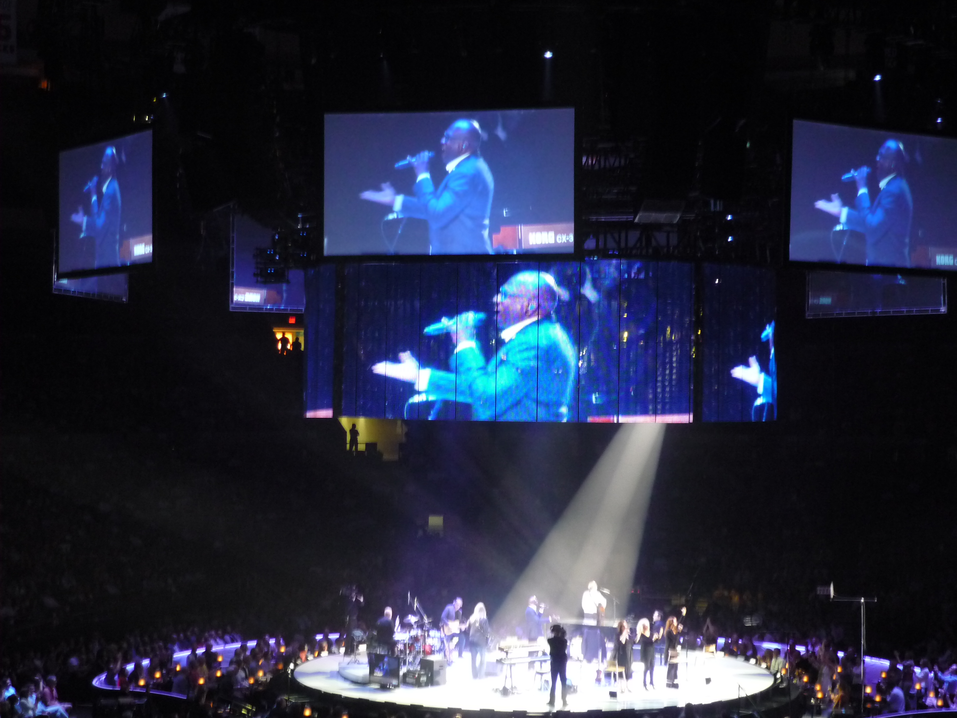 Arnold McCuller (center rear, and video screens) sings his well-known coda part as "Shower the People" is performed on the James Taylor and Carole King Troubadour Reunion Tour show at Madison Square Garden in New York. Taylor is center right with an acoustic guitar and King has joined the other backup singers in the middle position on the right.